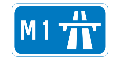 M1 Motorway Symbol Ireland